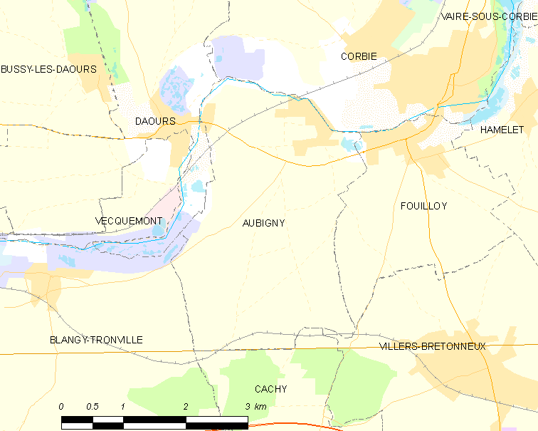 Map of French municipality Aubigny